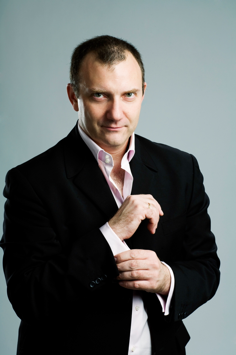 Marko Stojanović — Serbian actor, mime artist, cultural and humanitarian activist Српски (ћирилица): Марко Стојановић — српски глумац, пантомимичар, културни и хуманитарни радник Srpski (latinica): Marko Stojanović — srpski glumac, pantomimičar, kulturni i humanitarni radnik